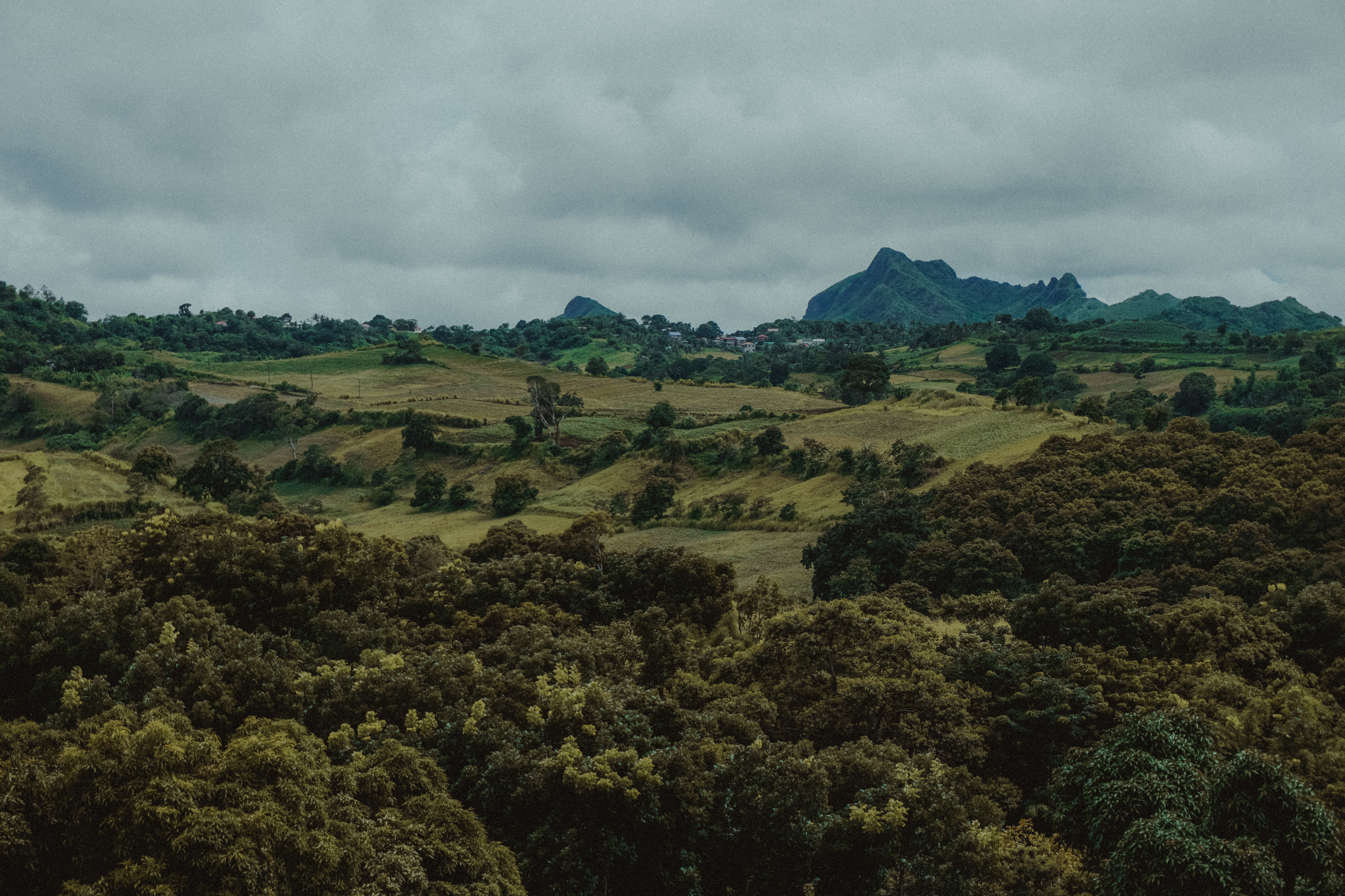 Mt. Batulao and the beauty of nature